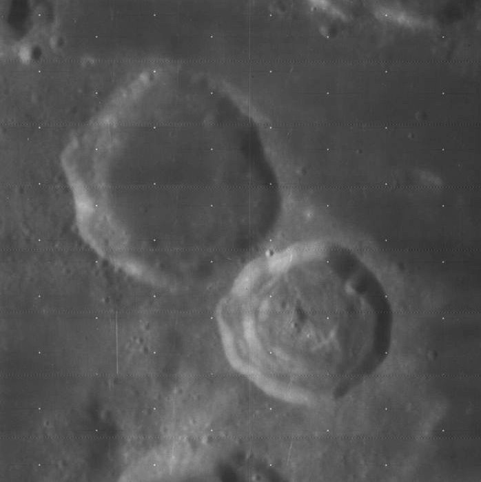 Magelhaens (upper left) and Magelhaens A (lower right), on the moon.